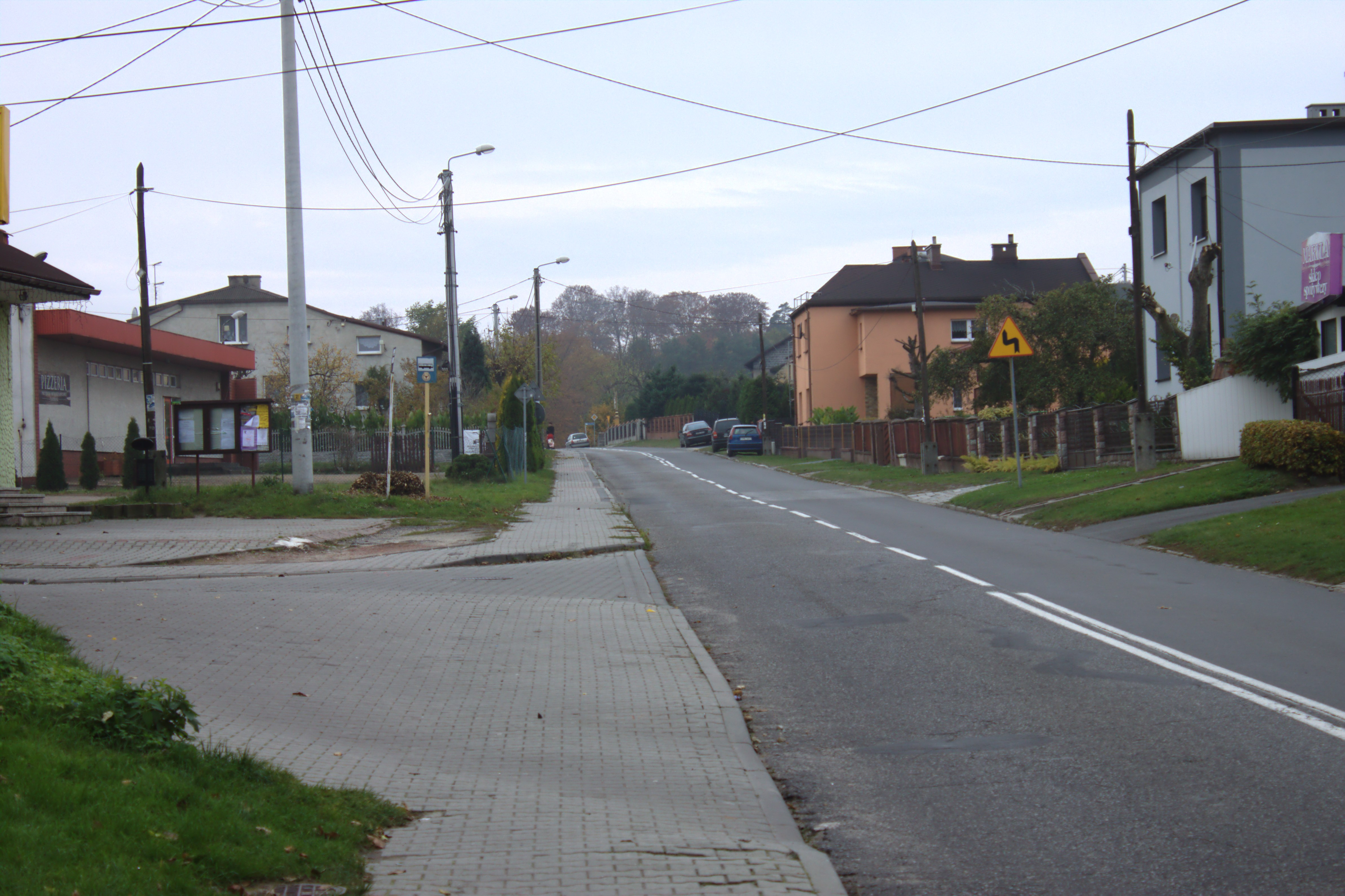 Main road in Zwonowice, Poland